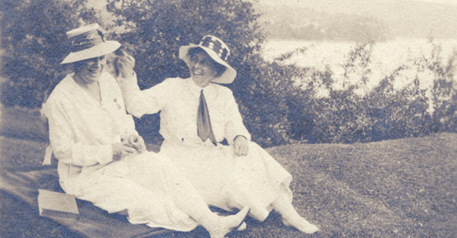 Jeannette Augustus Marks Papers, Mount Holyoke College, Archives and Special Collections, South Hadley, Massachusetts, Terms of Access and Use: Unrestricted.